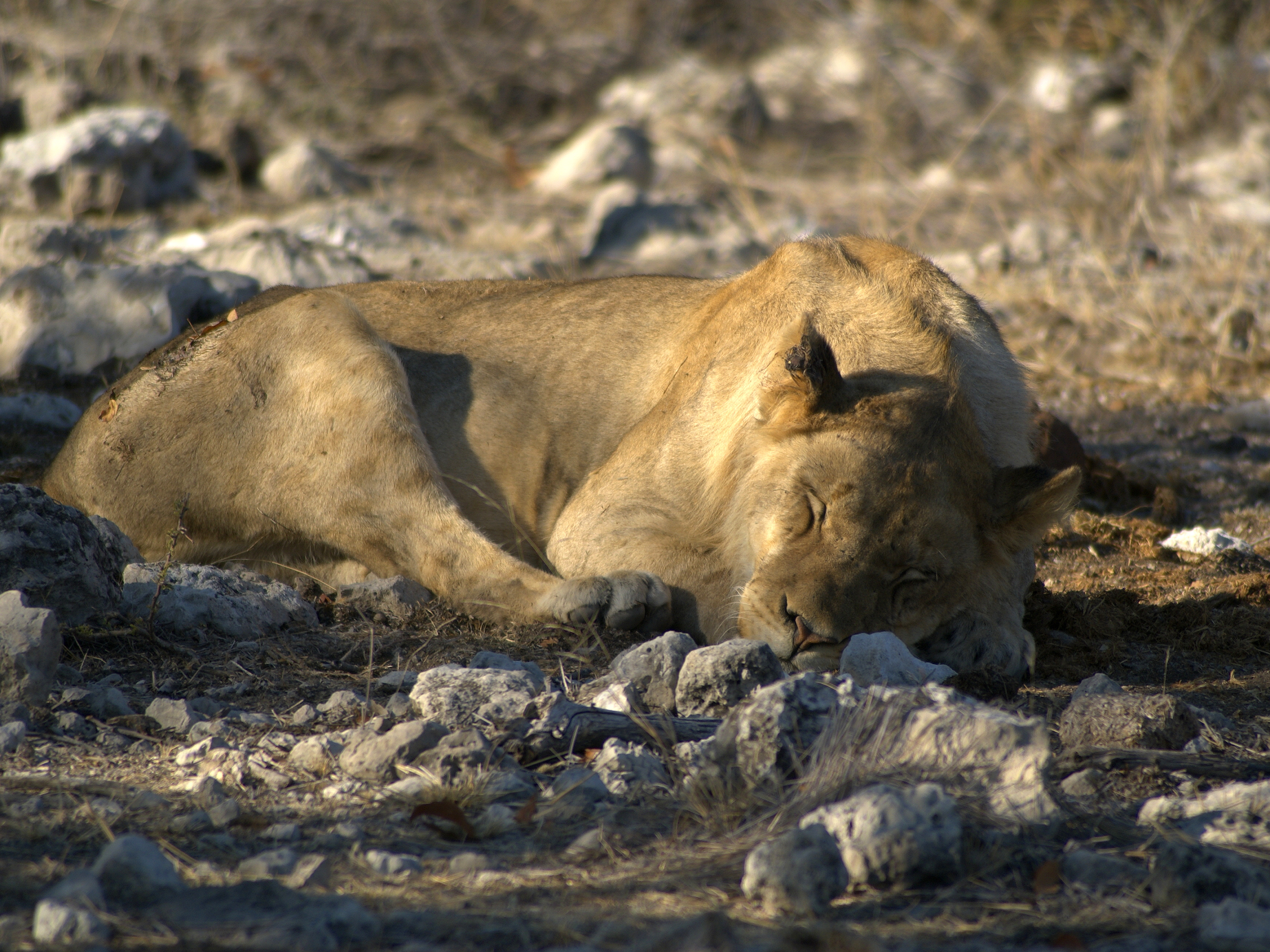 Young male lion at Goas waterhole, Etosha National Park, Namibia